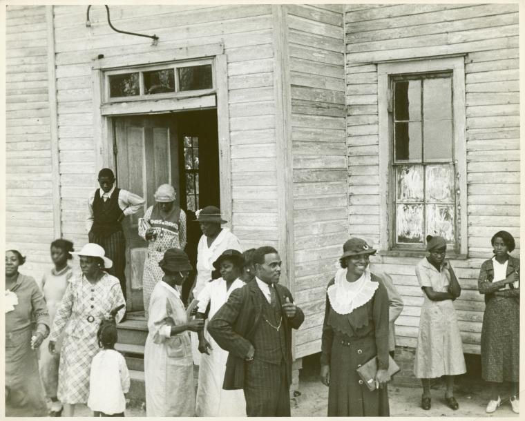 Digital ID: 1260002. Shahn, Ben -- Photographer. Date depicted: 1935 Notes: LOC negative # : RA 6023M-3. Source: Farm Security Administration Collection. / Arkansas. / Ben Shahn. (more info) Repository: The New York Public Library. Schomburg Center for Research in Black Culture. Photographs and Prints Division. See more information about this image and others at NYPL Digital Gallery. Persistent URL: Rights Info: No known copyright restrictions; may be subject to third party rights (for more information, click here)